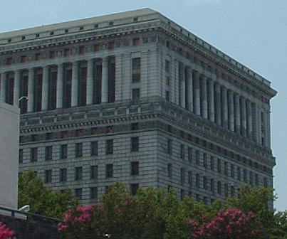 Los Angeles Hall of Justice